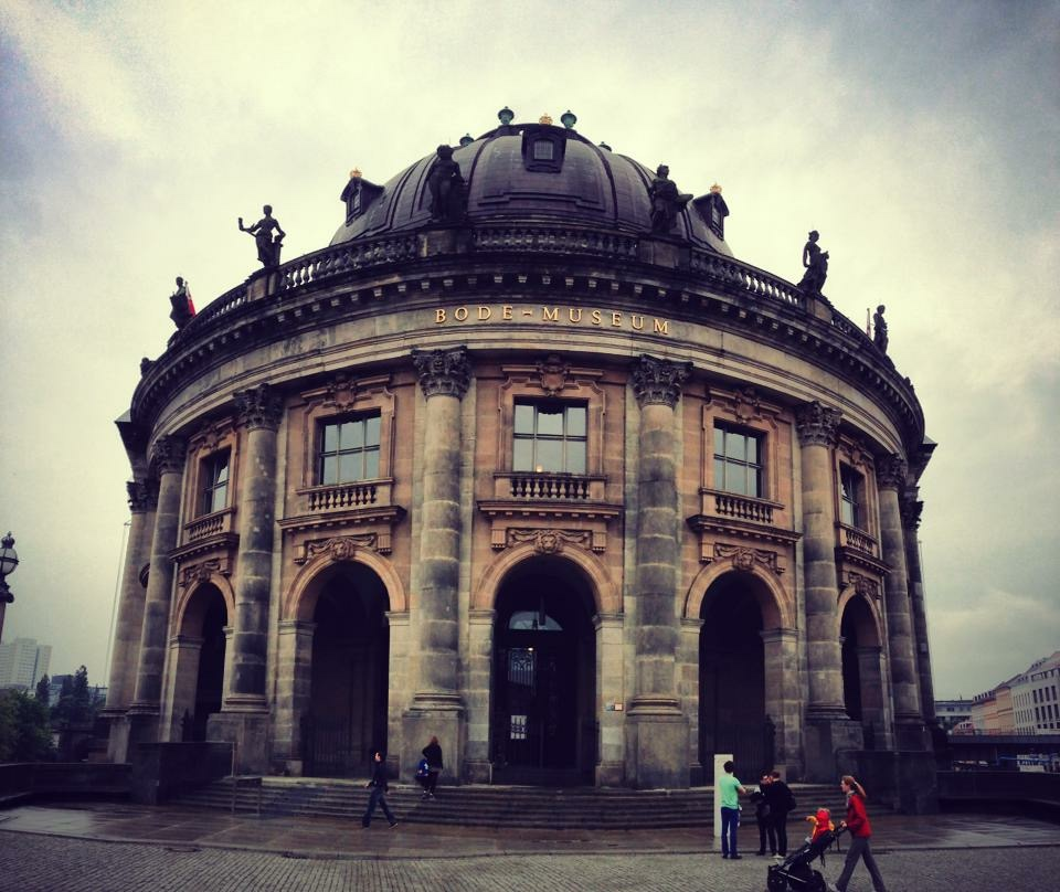 bode museum